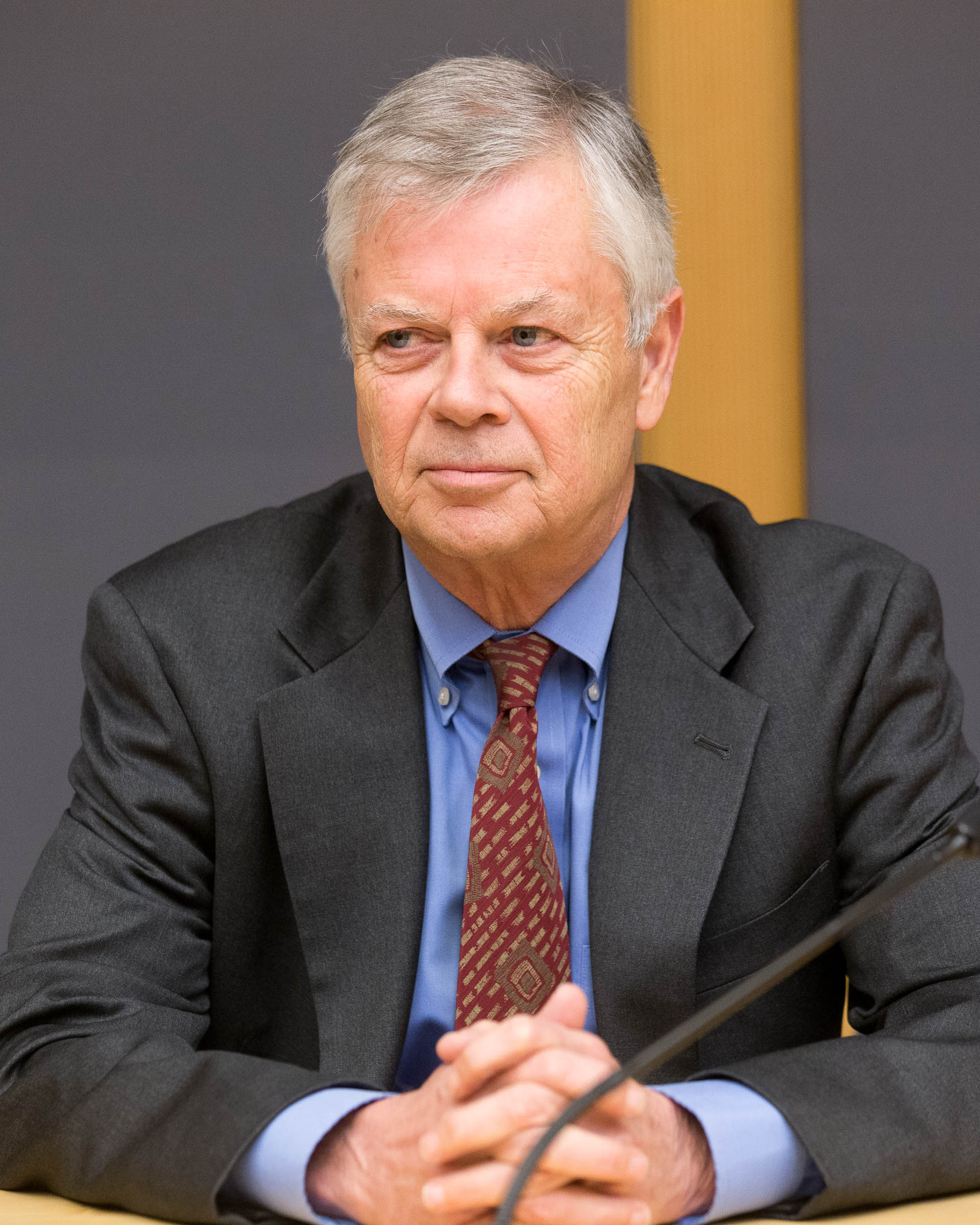 Brown University Professor Stephen Kinzer is the author of the book, "The True Flag: Theodore Roosevelt, Mark Twain, and the Birth of American Empire."